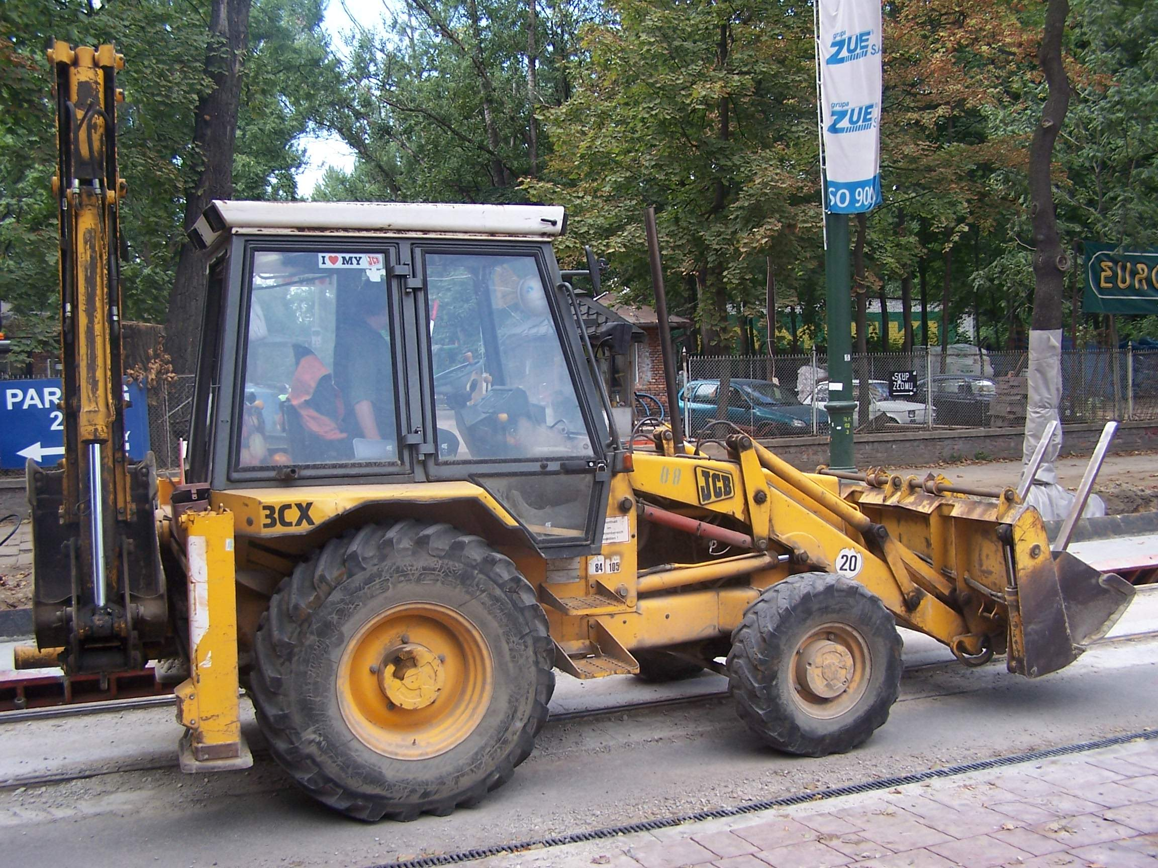 J. C. Bamford (JCB) 3CX backhoe loader. Kraków, Rakowiecka street, mid-2006. Photo by Piotrus.